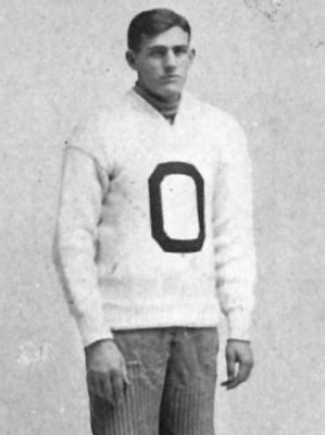 Oklahoma Sooners football player and Hall of Famer Claude Reeds.